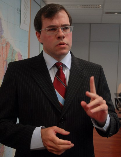 The ex-Office of the Solicitor-General, Antônio Dias Toffoli, recieving congratulations for the goverment support for the researches with stem cells. Note: Nowadays, he is a member of Supreme Federal Court.